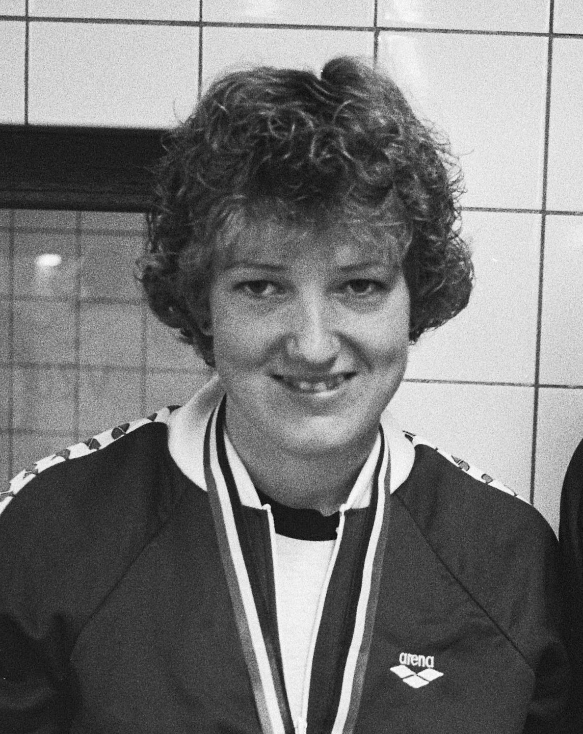 Annelies Maas at national championships